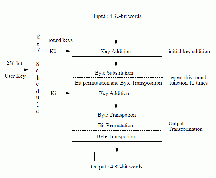 CRYPTON cipher v.1.0 structure